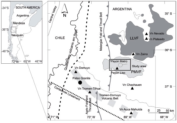 Location of the Payún Matrú Volcanic Field and the Llancanelo Volcanic Field (LLVF) in the recent Andean back-arc.